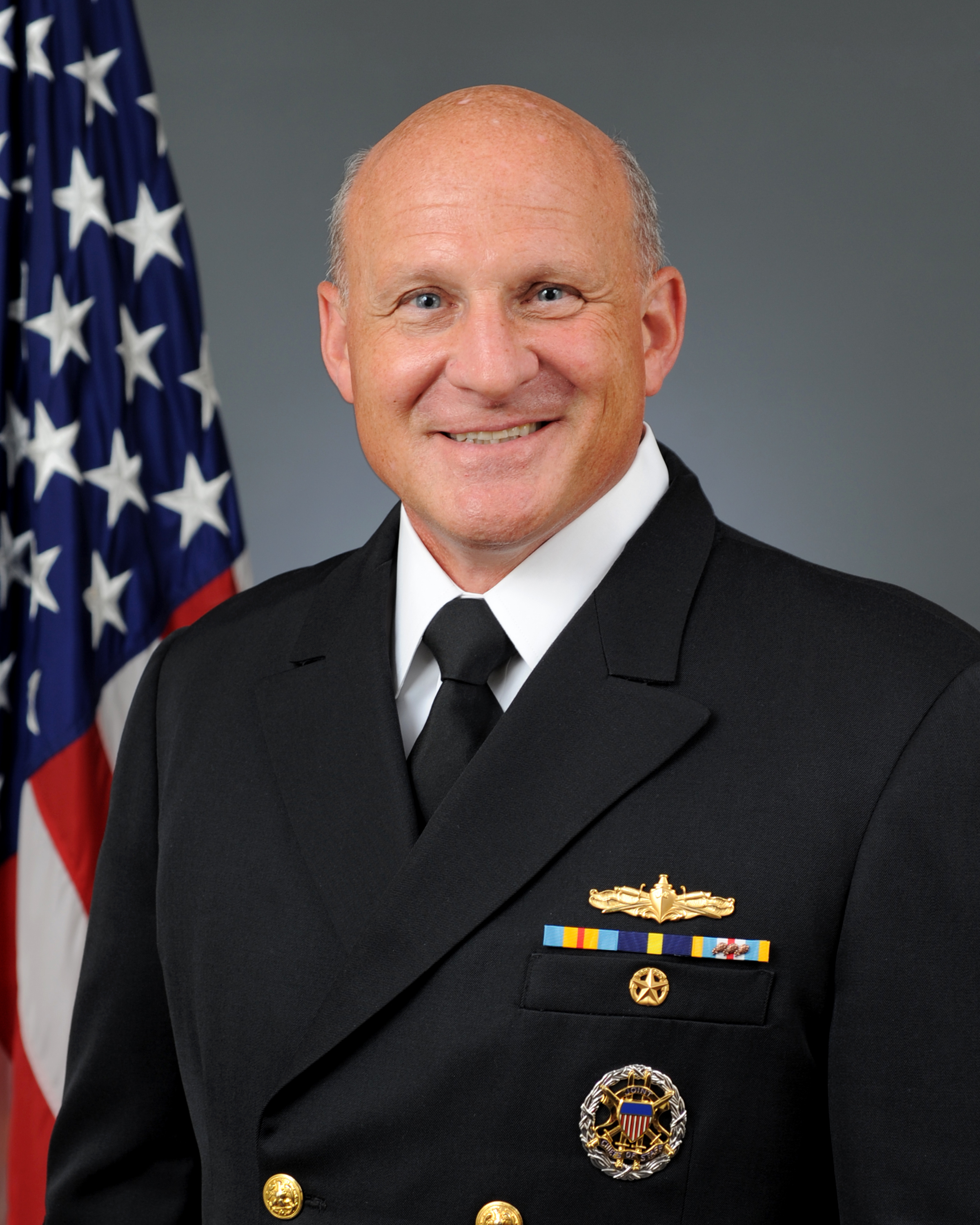 Admiral Gilday as Chief of Naval Operations in 2019